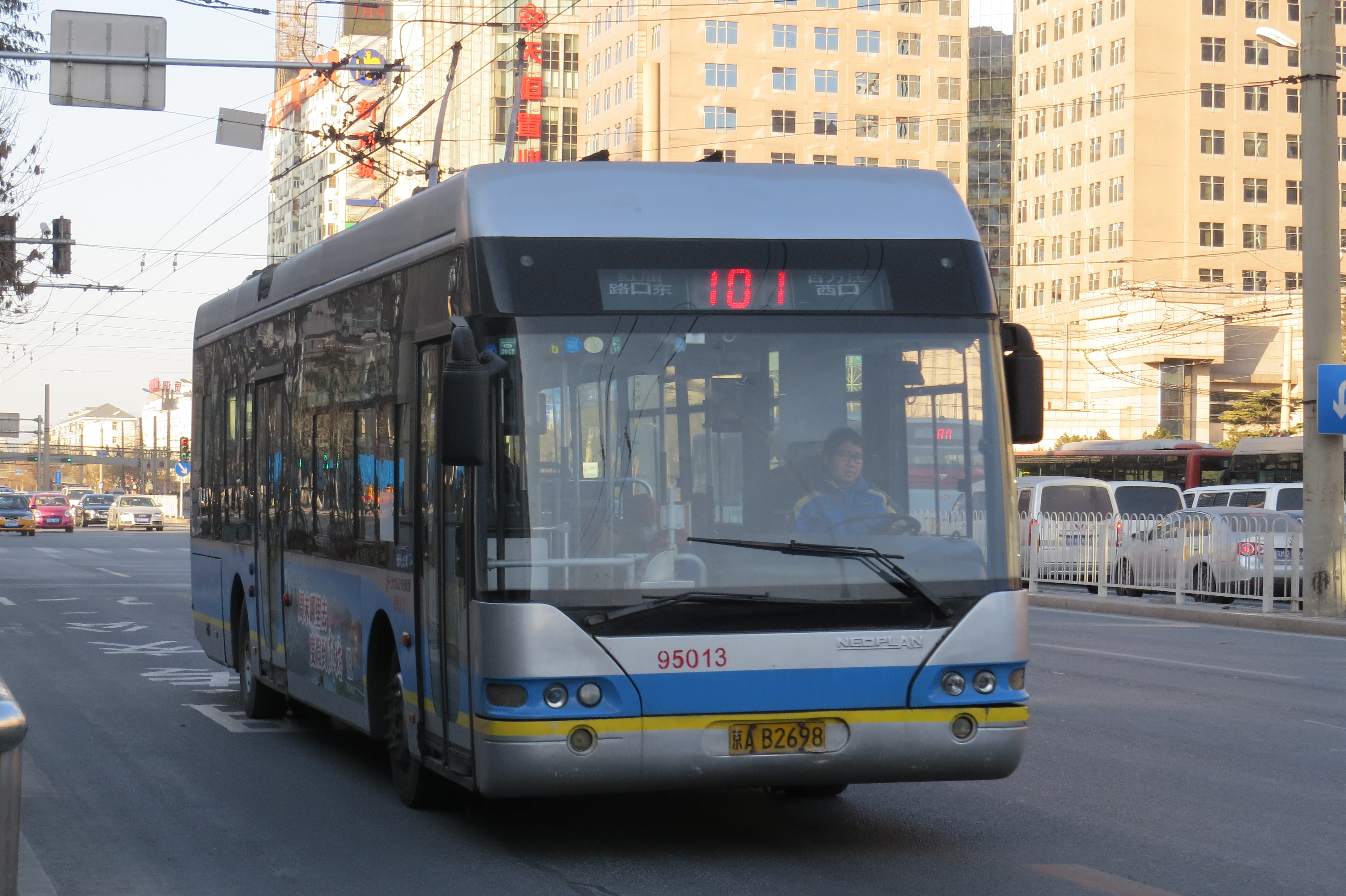 First trolleybus ride in 2016 falls on 101!